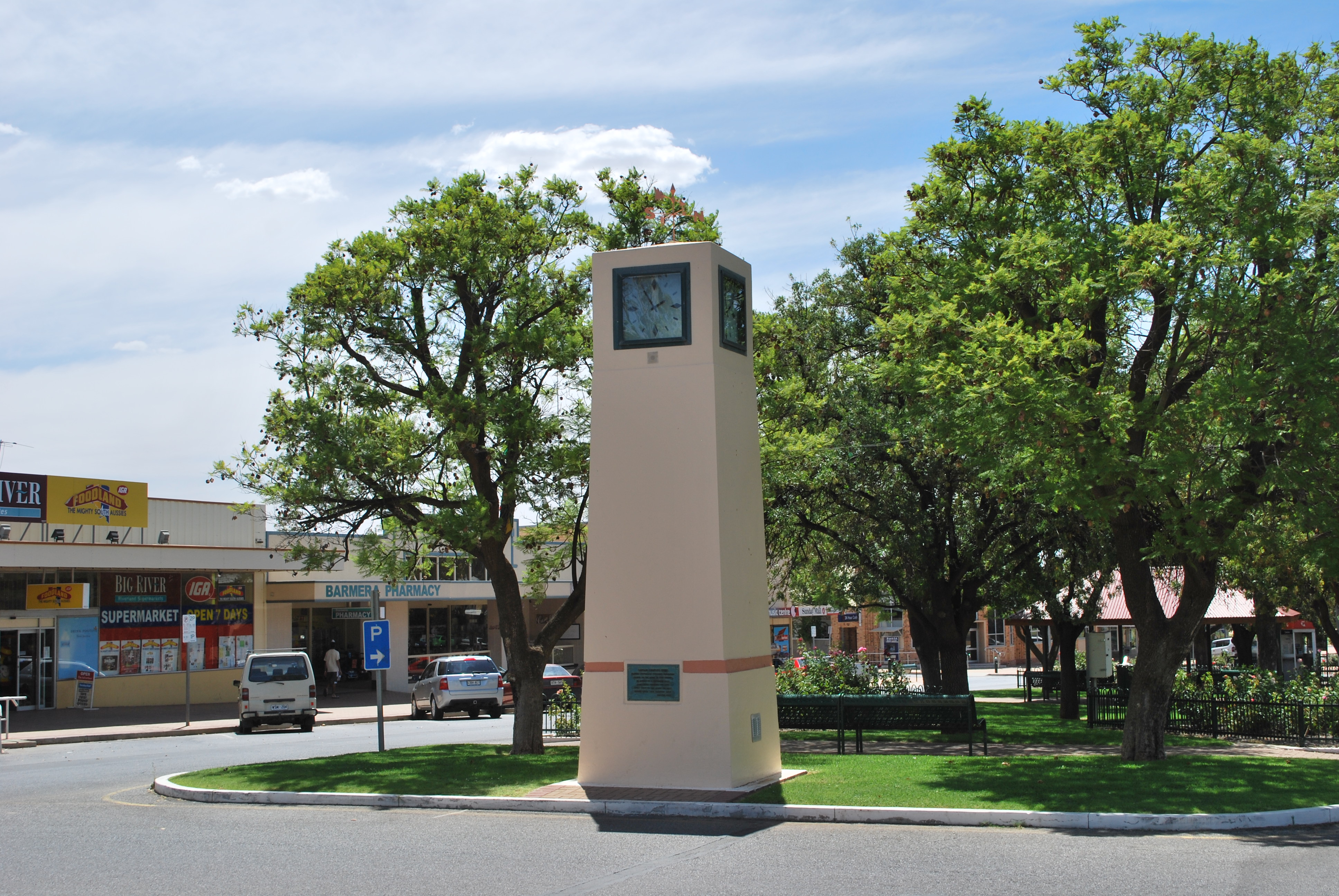 Clock tower at Barmera, South Australia, a memorial commemorating the centenary of Charles Sturt's exploration of the area in 1844